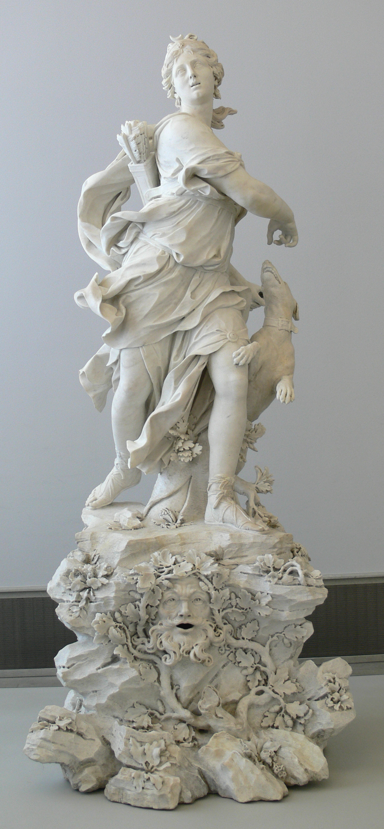 Bernardino Cametti: Diana as Huntress, Rome 1717/1720, marble (pedestal by Pascal Latour, 1754). Skulpturensammlung (Inv. 9/59; acquired in 1959), Bode-Museum Berlin.